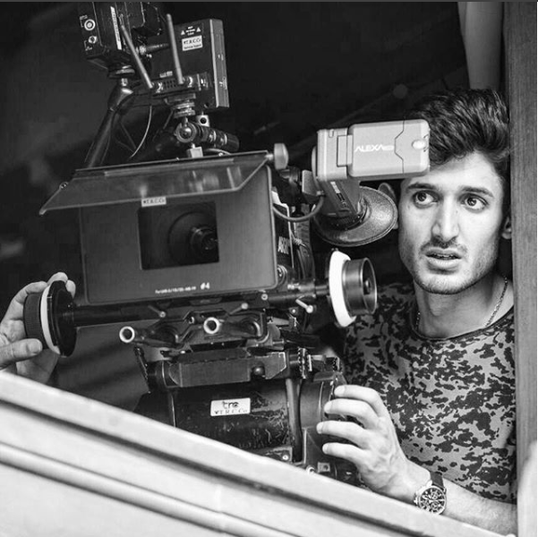 Thailand the location of the film we love you Miss yaya of Abdolreza Kahani